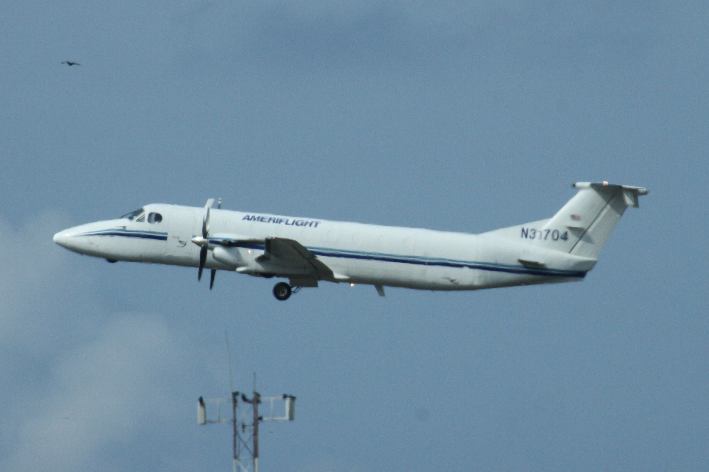 This has got to be the cleverest advertising slogan for traveling to Agra, India!